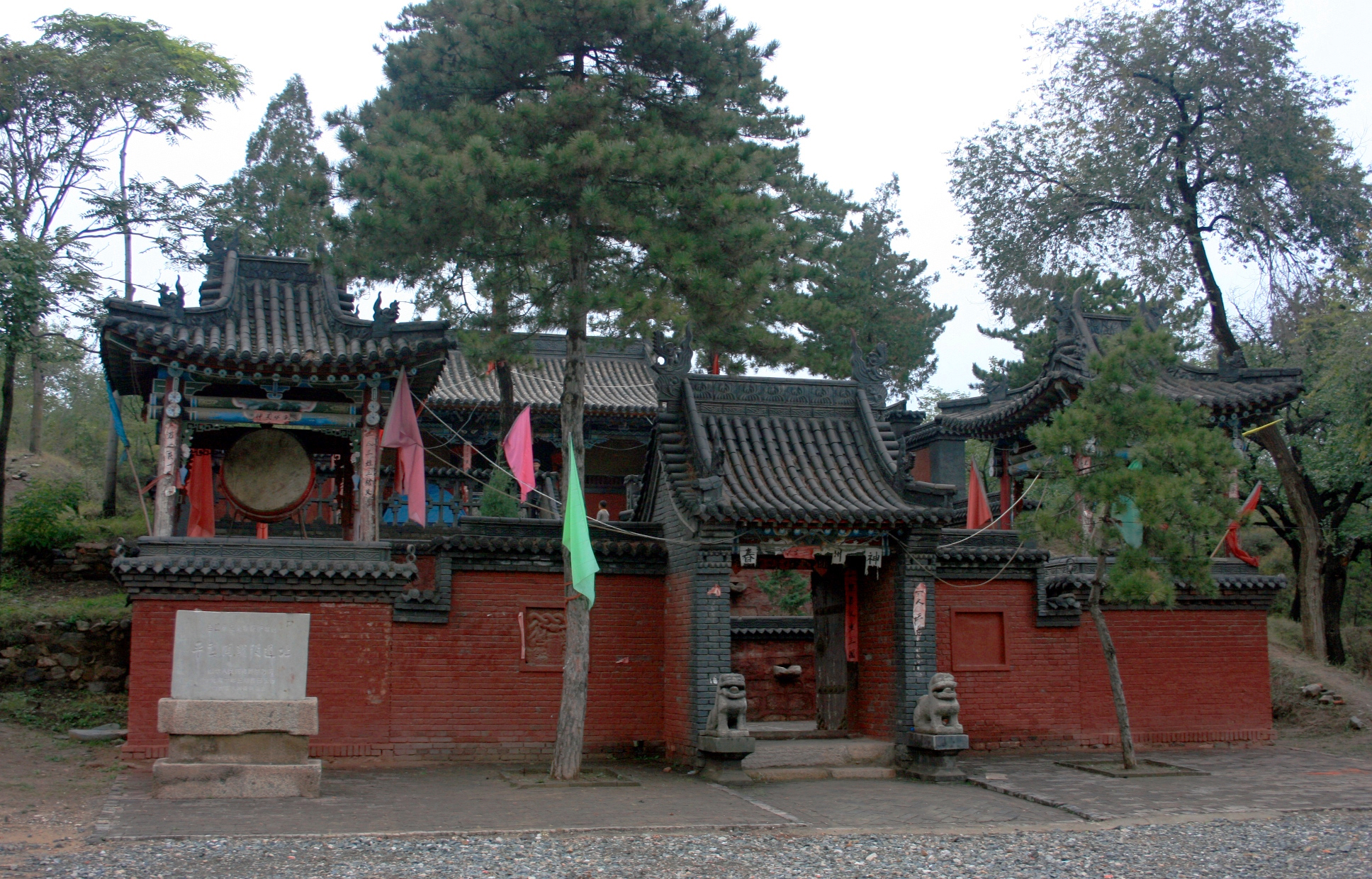 Photograph of the "Old Man Temple" (Lao Ye Miao) on the site of the Battle of Pingxingguan, Pingxingguan Pass, Shanxi Province, China.